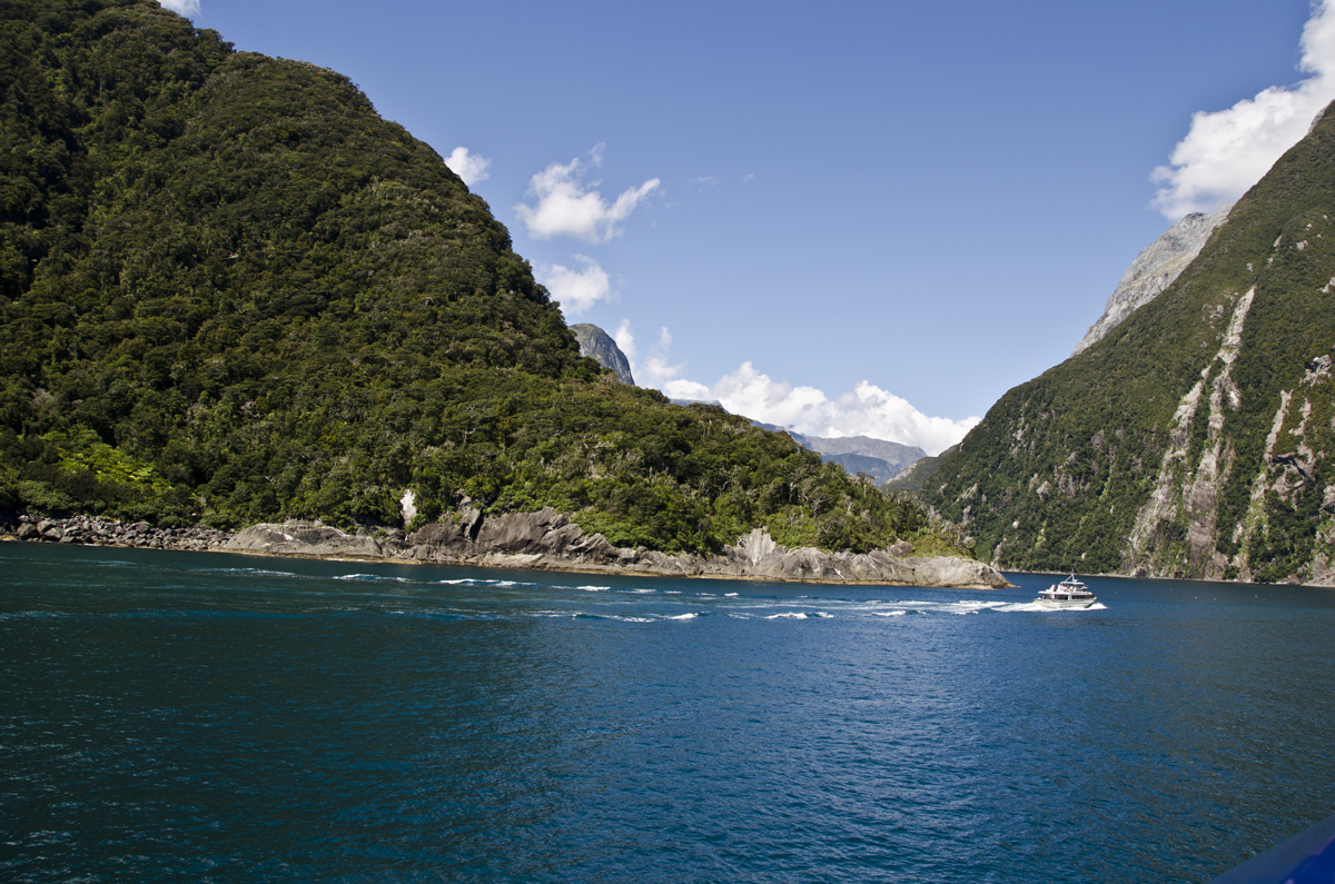 Milford Sound, New Zealand.